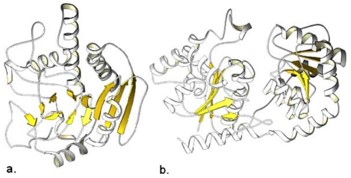 The two most common glycosyltransferase folds GT-A and GT-B. (a) GT-A enzyme GTA produces the human ABO blood group A antigen; (b) GT-B enzyme GtfB glycosylates vancomycin